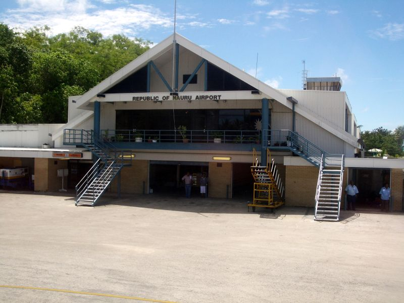 Image of the building of the airport of Nauru